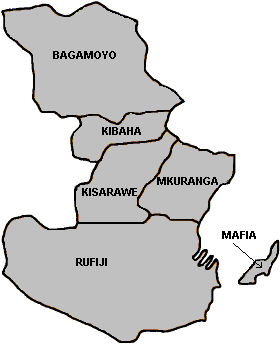 District subdivision map of Pwani Region, Tanzania